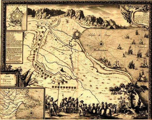 Plan of the Catalan city of Roses